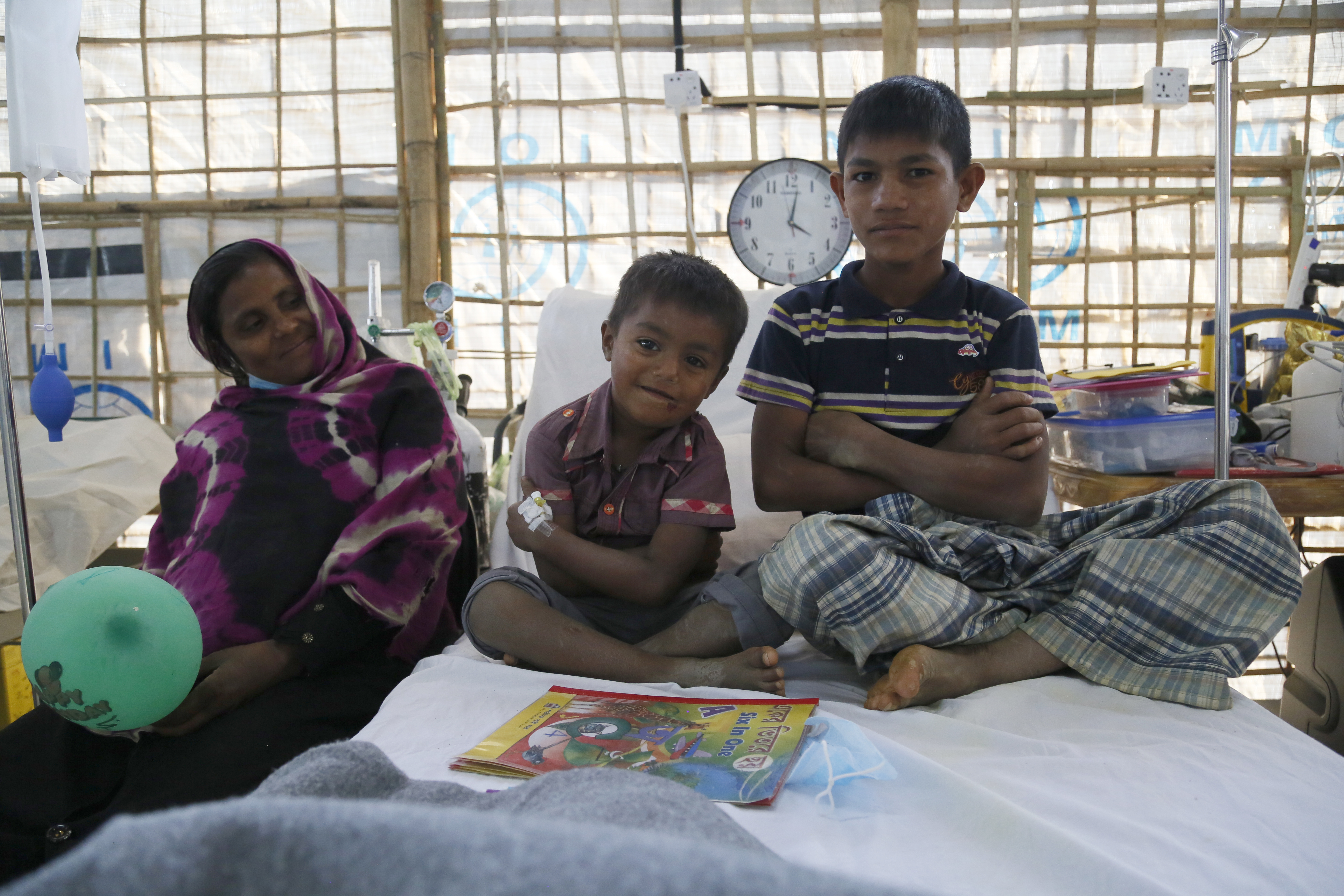 Anowar was referred to the UK EMT treatment centre displaying signs and symptoms of diphtheria including a coating at the back of his throat and a swollen neck. His symptoms were severe enough that the team decided that he needed diphtheria antitoxin immediately, and his father agreed once the process had been explained to him. At 9am in the morning Anowar was weak, quiet and lethargic. By 4pm in the afternoon, after receiving treatment, he was already feeling much better, smiling and bouncing around again, playing on the bed with one of his brothers. He played with a balloon with the EMT staff. He was kept in the treatment centre until the next morning, and after such a successful recovery he has now been discharged. But Anowar’s story doesn’t end there. He is still living in Kutupalong camp with his extended family, including 11 other children. All of these children and anybody else who has been in close contact with Anowar recently now need to be traced in order to also be checked for signs of Diphtheria and given precautionary antibiotics. This is an essential part of the efforts to stop the spread of the outbreak. Picture: Russell Watkins/Department for International Development